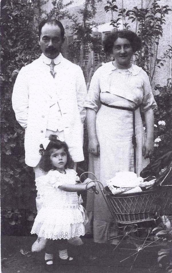 Arthur Ruppin with his family.